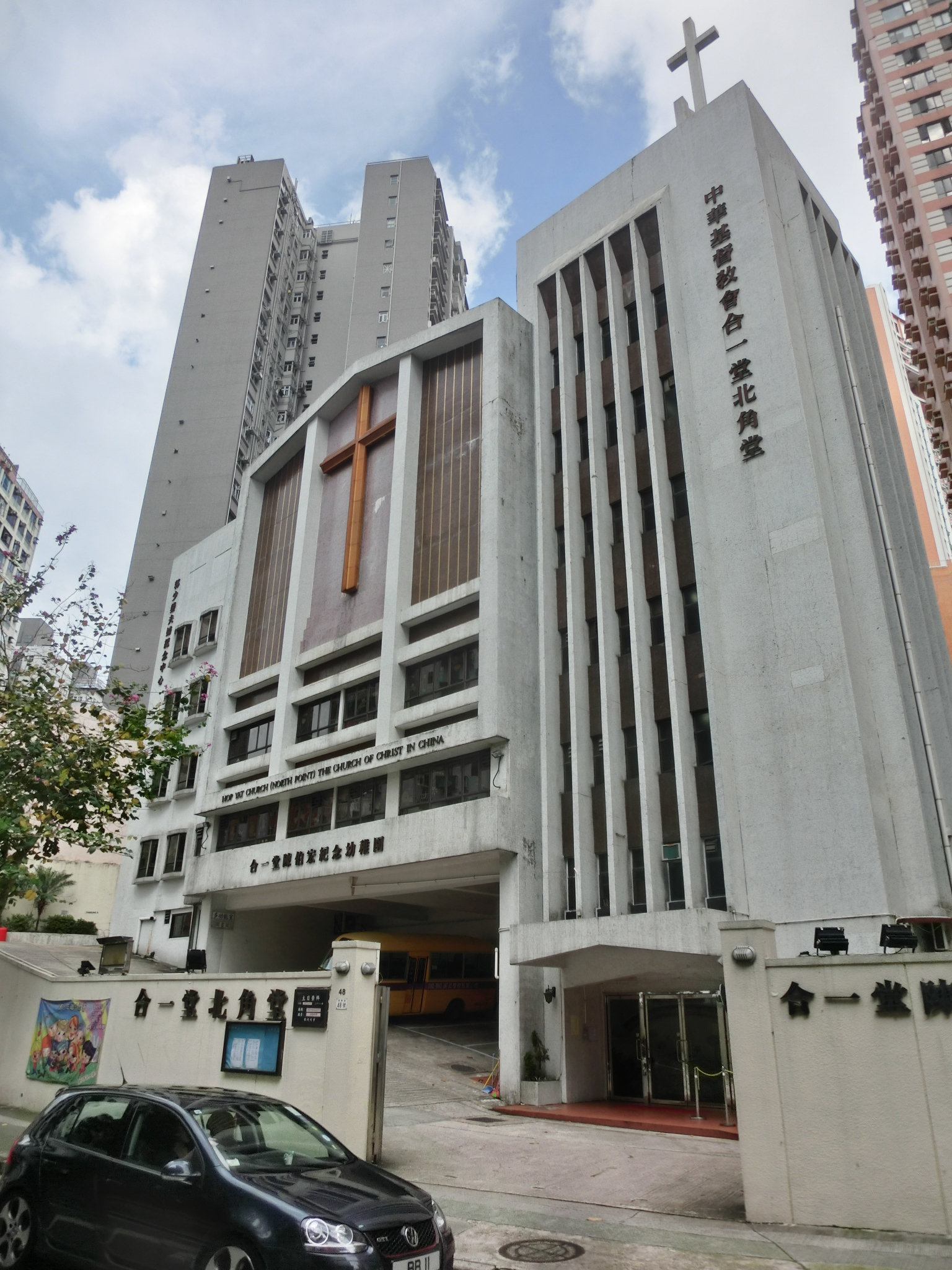 北角港島北半山zh:寶馬山寶雲道48號, 合一堂北角堂, Cloud View Road, Braemar Hill, Mid-levels East, Eastern District, Hong Kong Island, HK